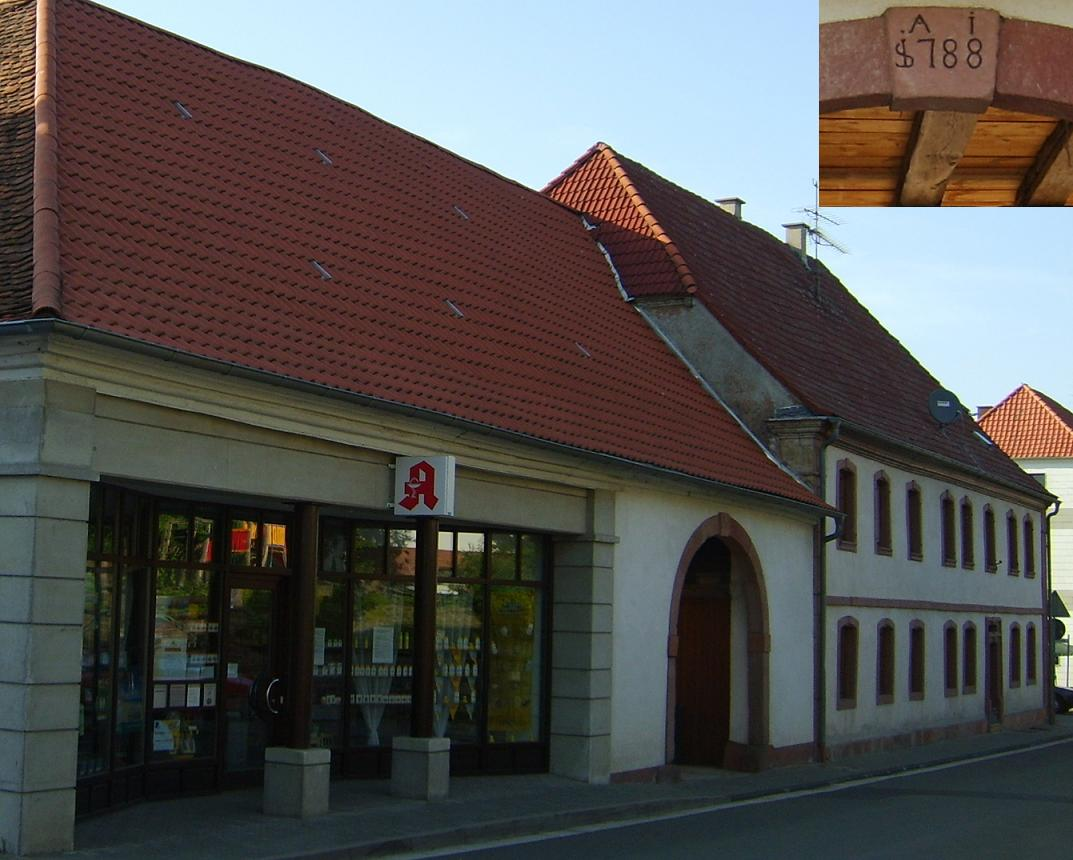 Schopp, Hauptstr. 8, Gate